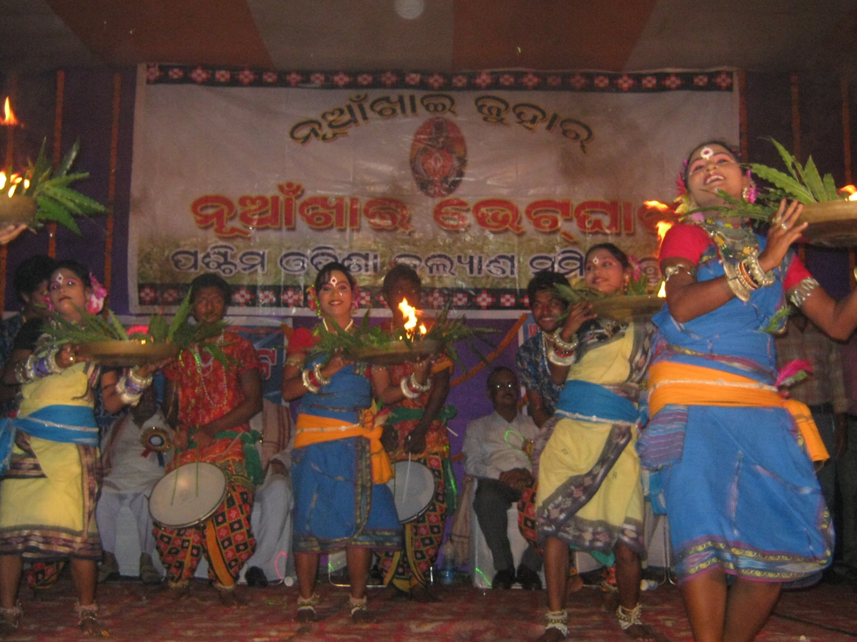 This is just a view of the world famous Sambalpuri dance 'Dalkhai'.